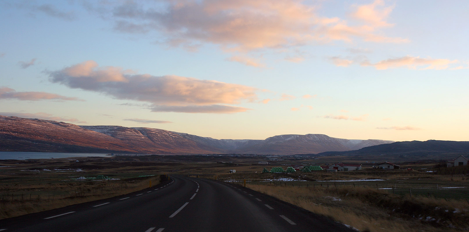 Southeast across Eyjafjörður to Vaðlaheiði. Outskirts of Akureyri to the south. November 21 16:05 Iceland, November 2007 Photo by me user:debivort (or friend, with permission given to freely license photo).